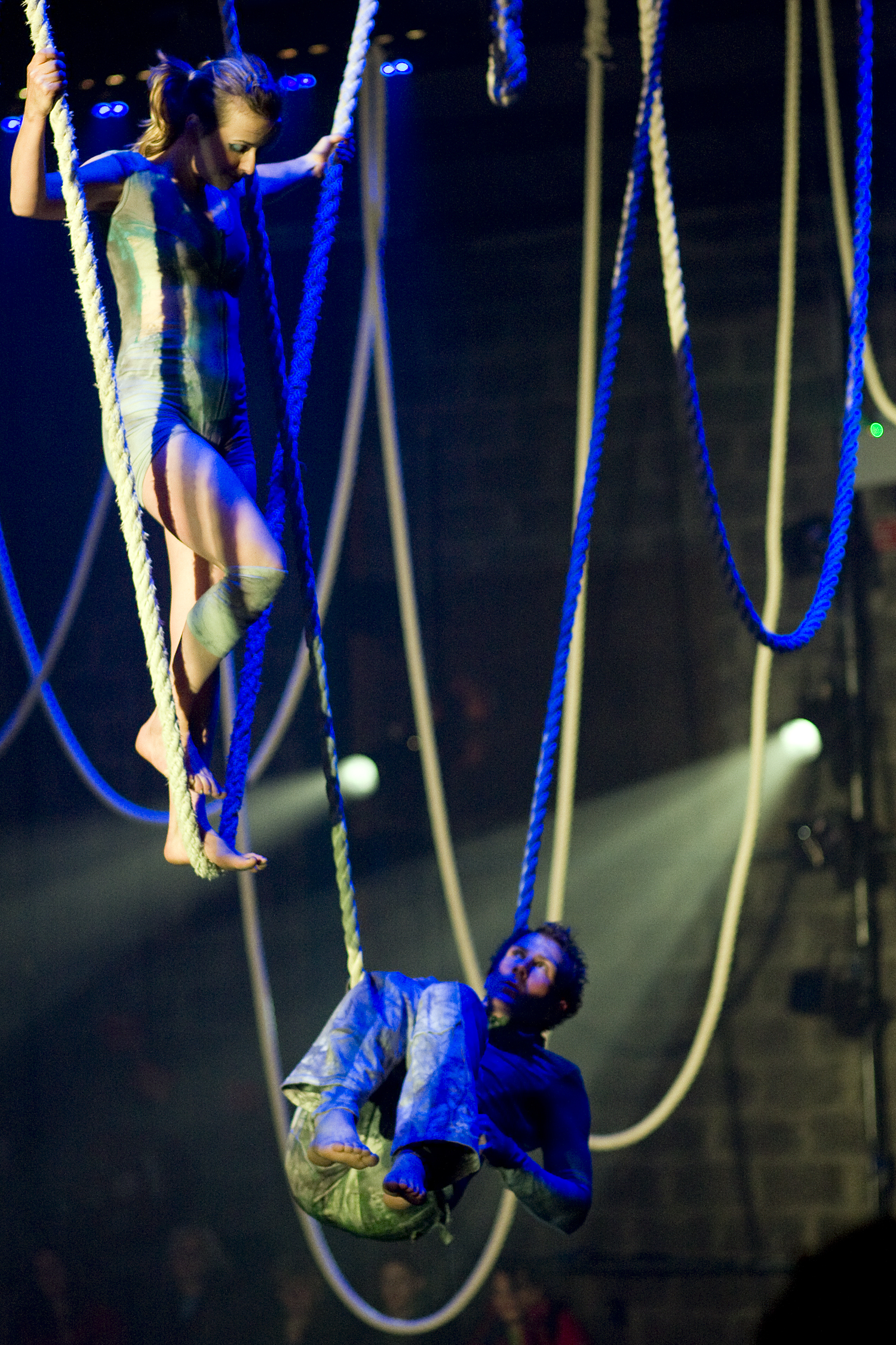 Raw is a creation by Fidget Feet, an aerial dance company which performed at Junction 7.08